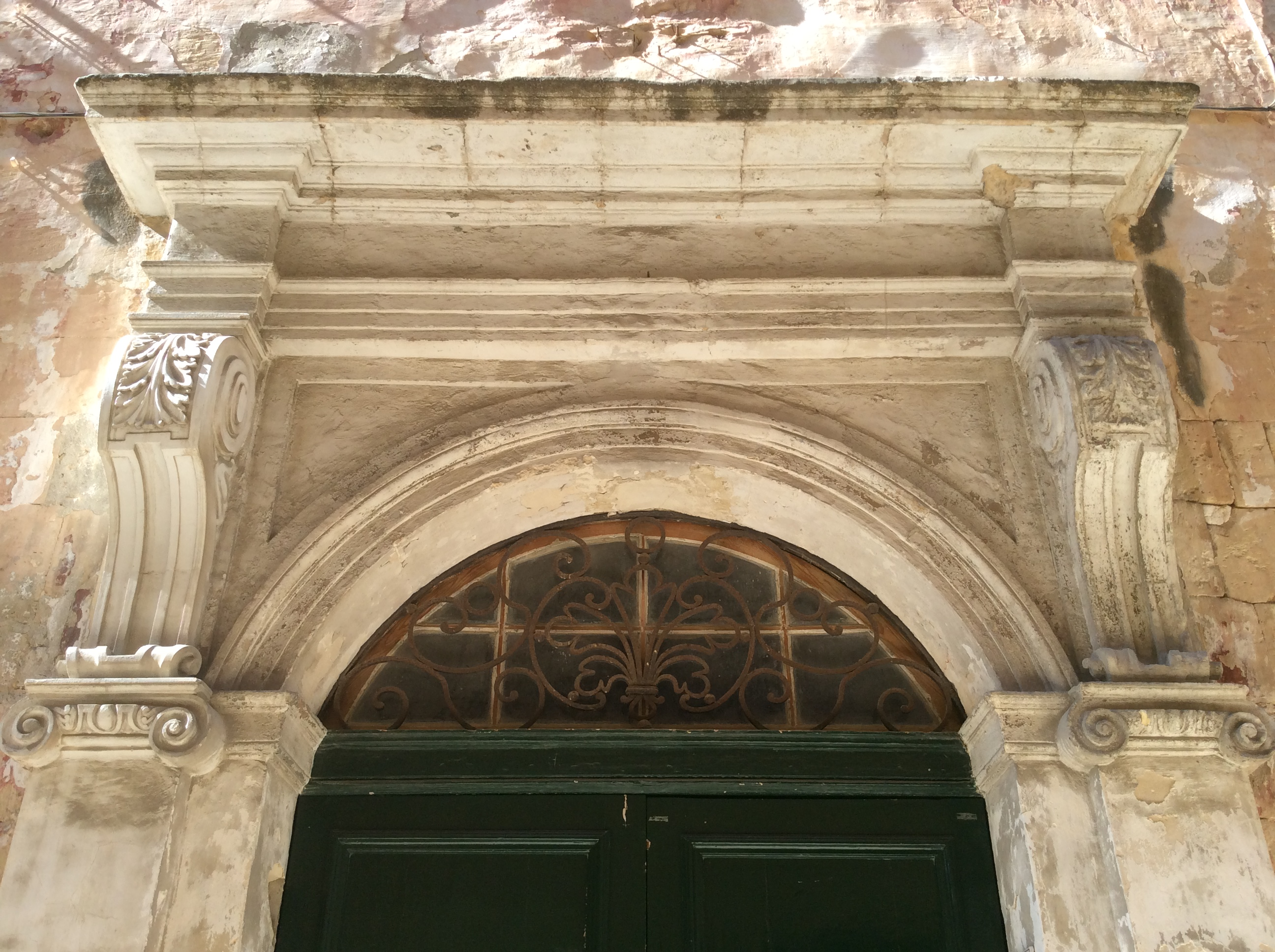 Auberge de France This media is about Maltese cultural property with inventory number 01158.